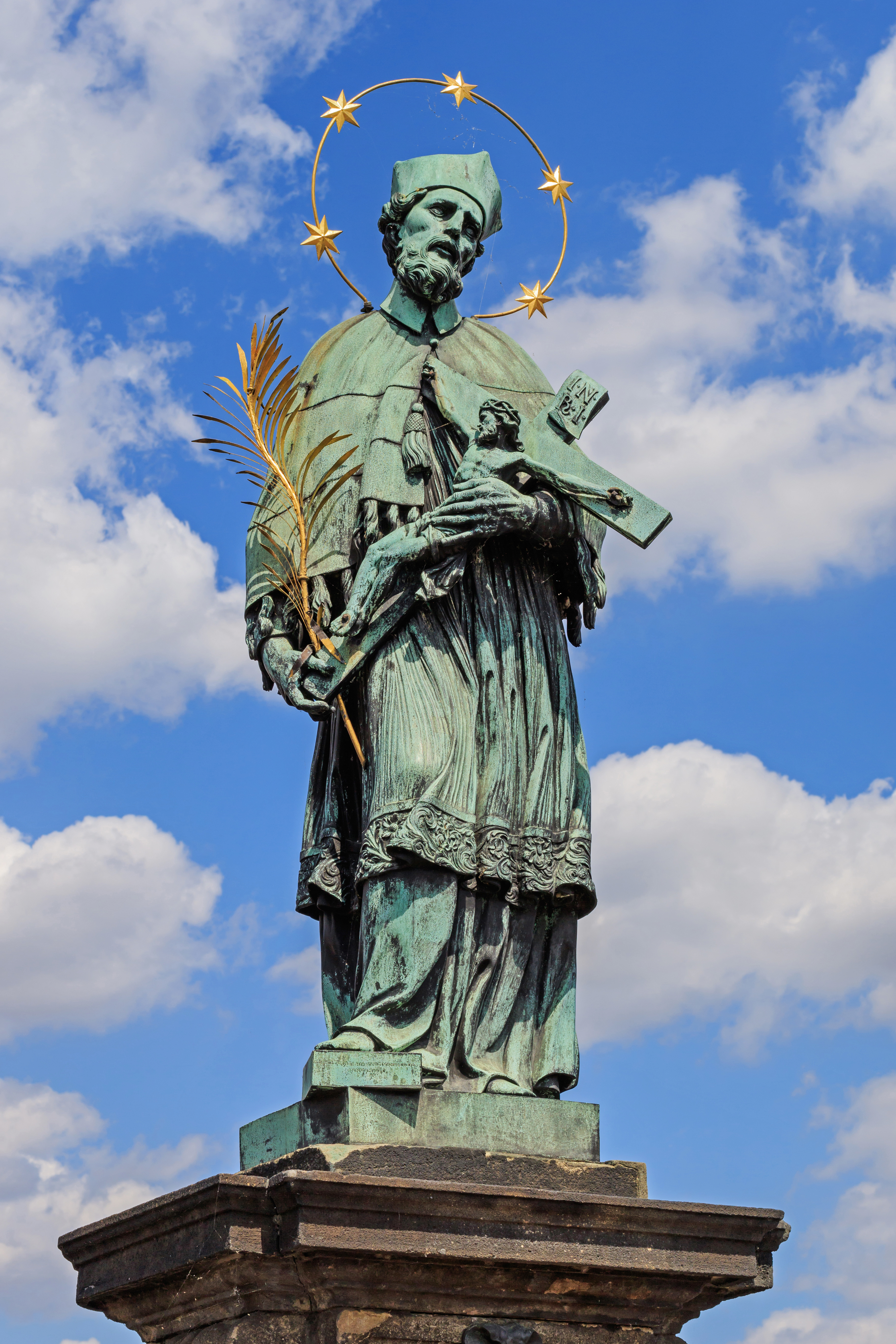 Statue of John of Nepomuk on Charles Bridge in Prague (Czech Republic)